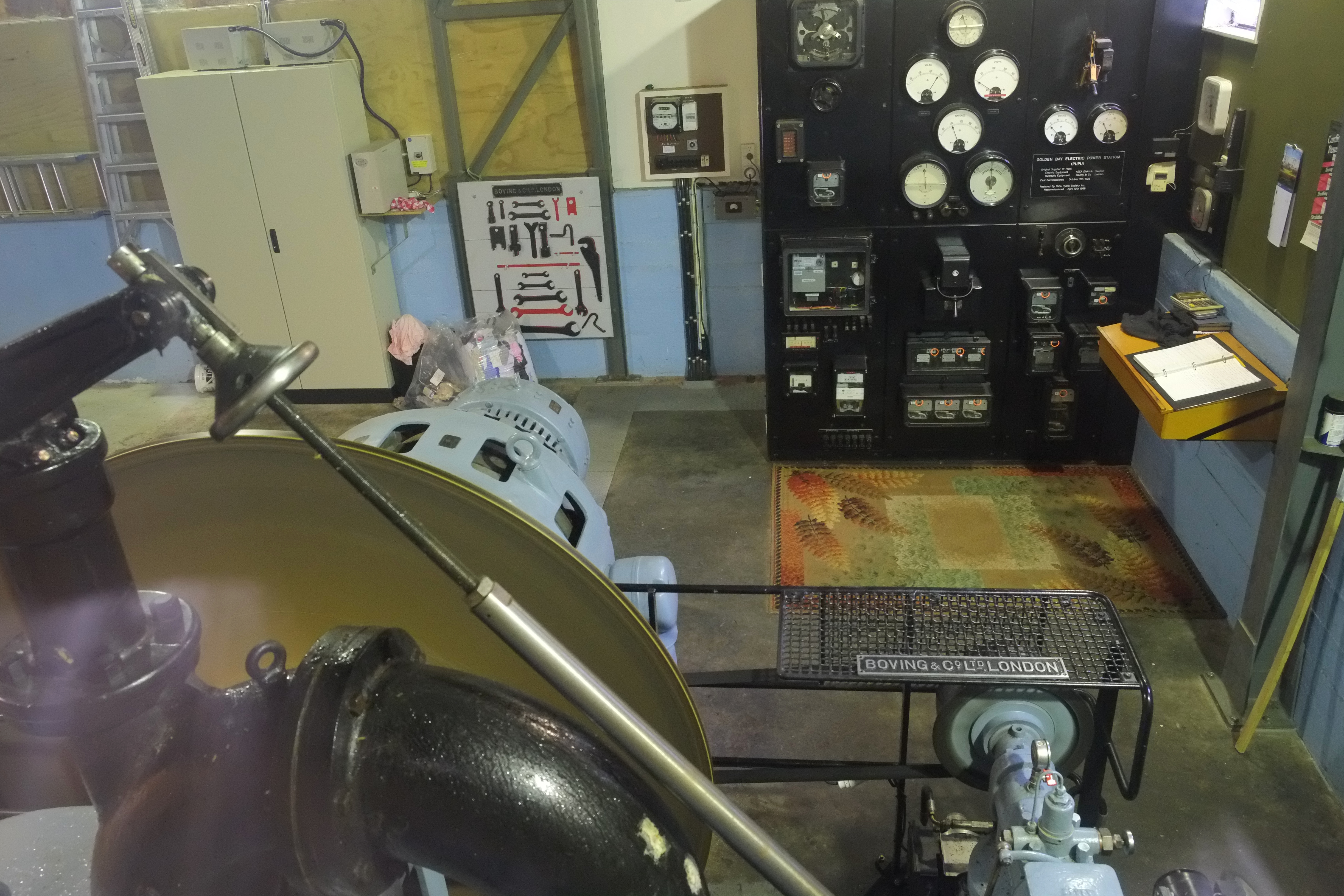 Pupu Hydro Powerhouse turbine room, fully restored and operational 250kVA 400V ASEA generator, and control & metering equipment visible in the background